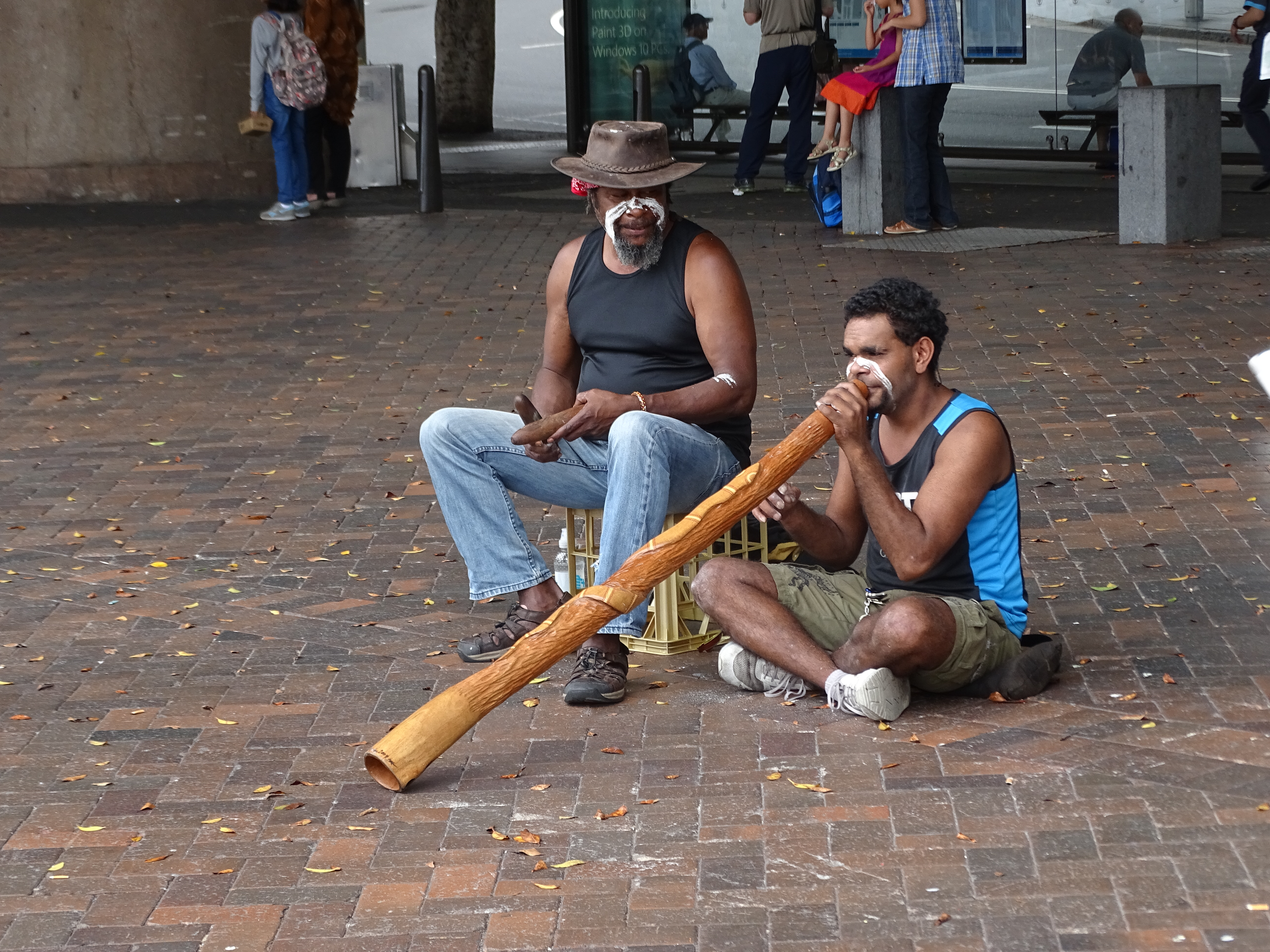 Didgeridoo performer in the harbour of Sydney